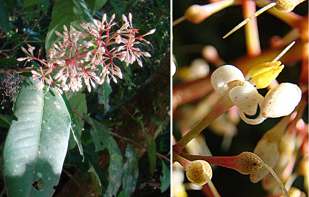 A victim of confused taxonomy, found from here in Nicaragua to Panama. In context at